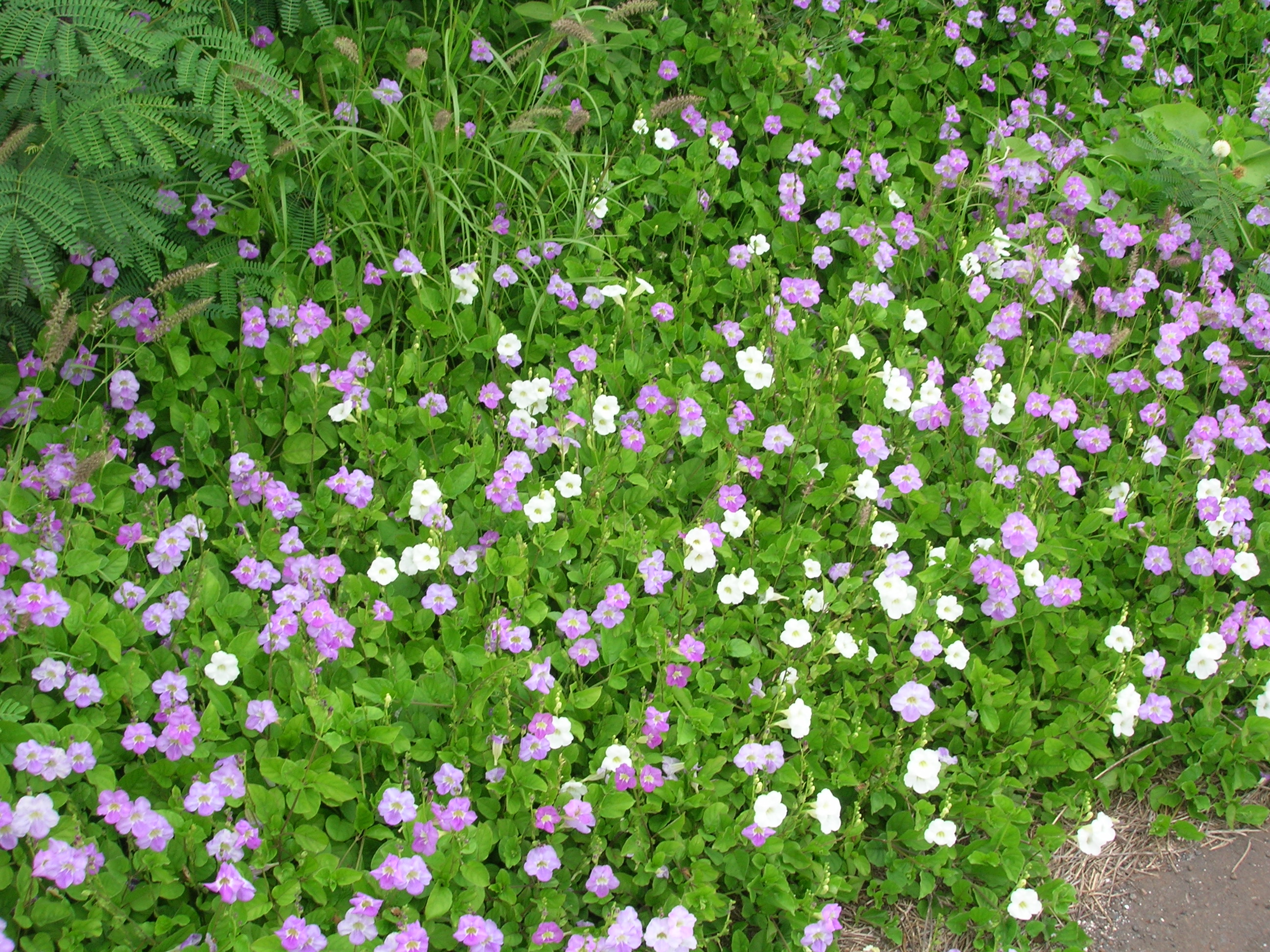 Asystasia gangetica (flowers). Location: Maui, Kahului Airport